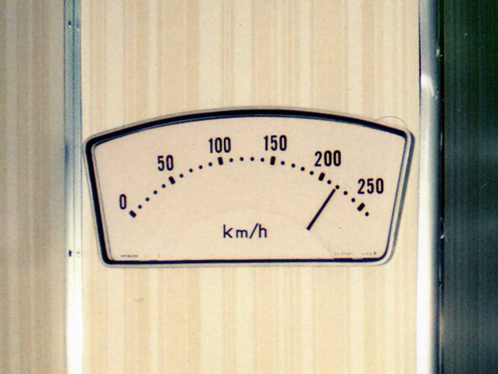 Speed meter of Shinkansen 0 series buffet cabin